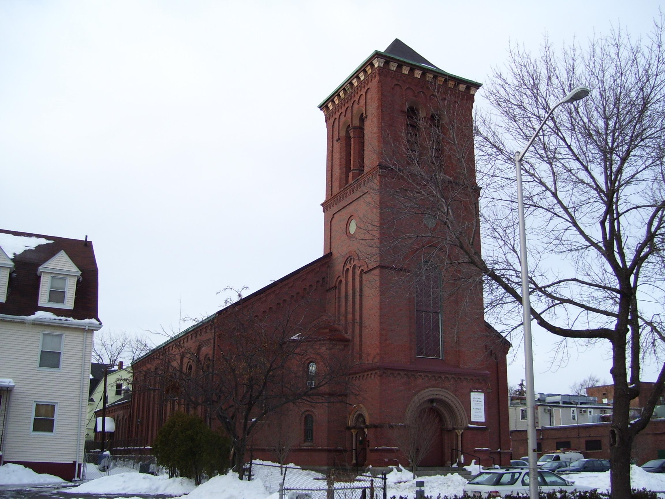 My 2010 photo of Christ The King Presbyterian Church in Cambridge, Massachusetts, near Central Square. It is located on Prospect Street and was formerly Prospect Congregational Church.